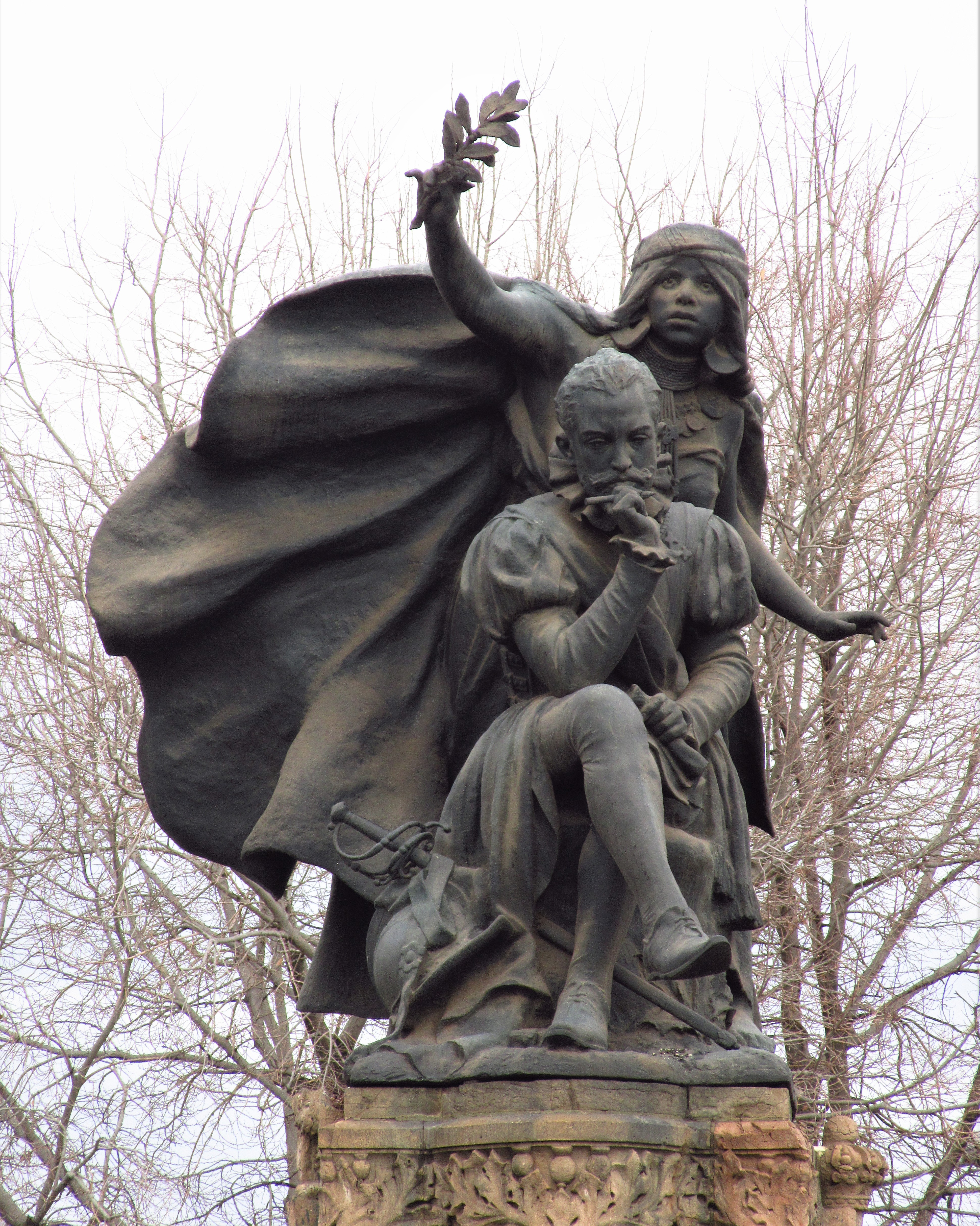 2017 in Santiago de Chile